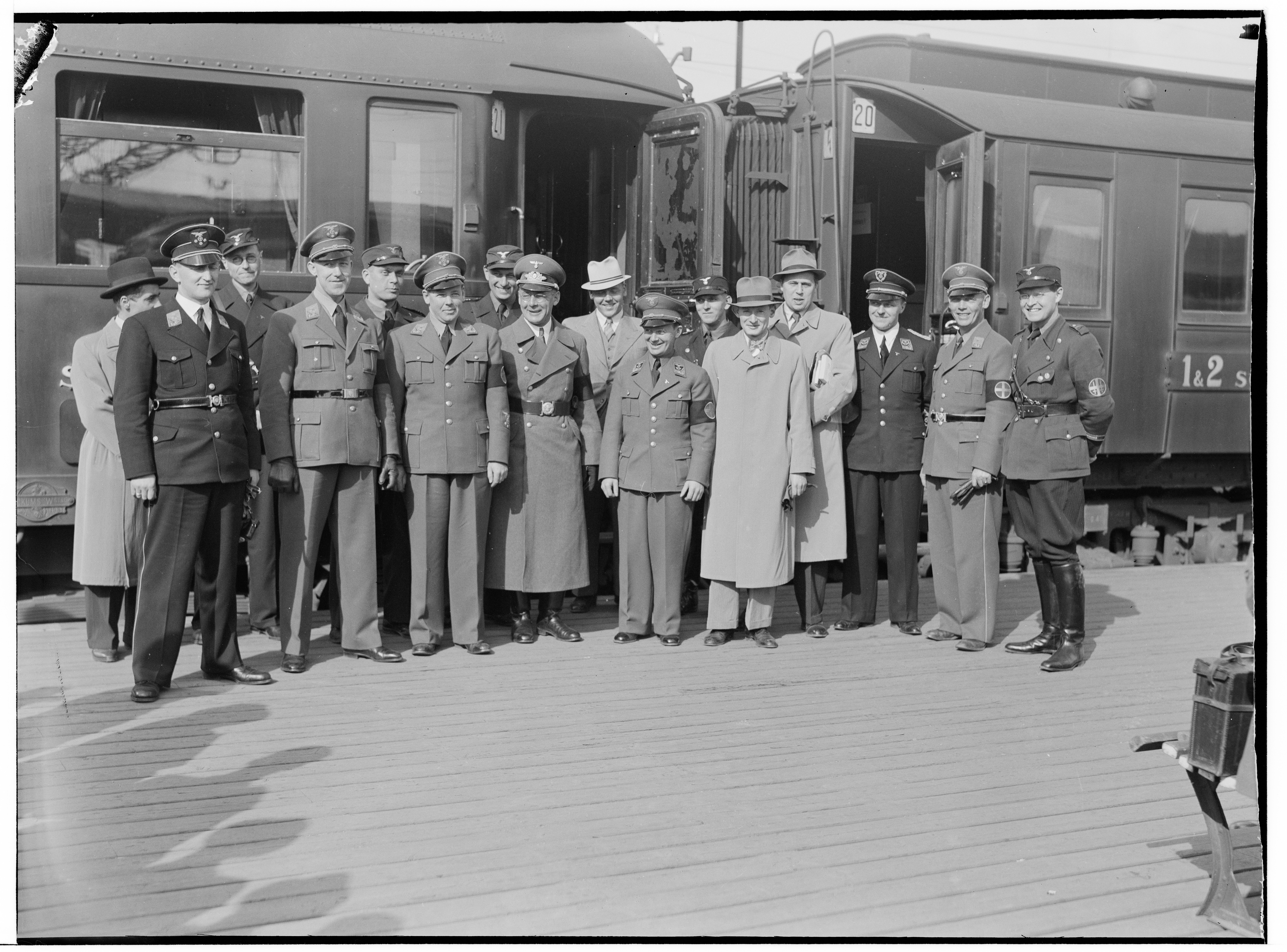 Leaders of the Norwegian Nazi Party Nasjonal Samling (NS) at Østbanestasjonen, today Oslo Central Station, the main railway station in Oslo, Norway, before going to Germany in May 1941.